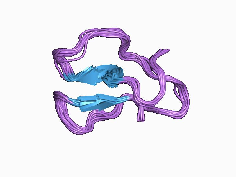 Cartoon representation of the molecular structure of protein registered with 1azj code.